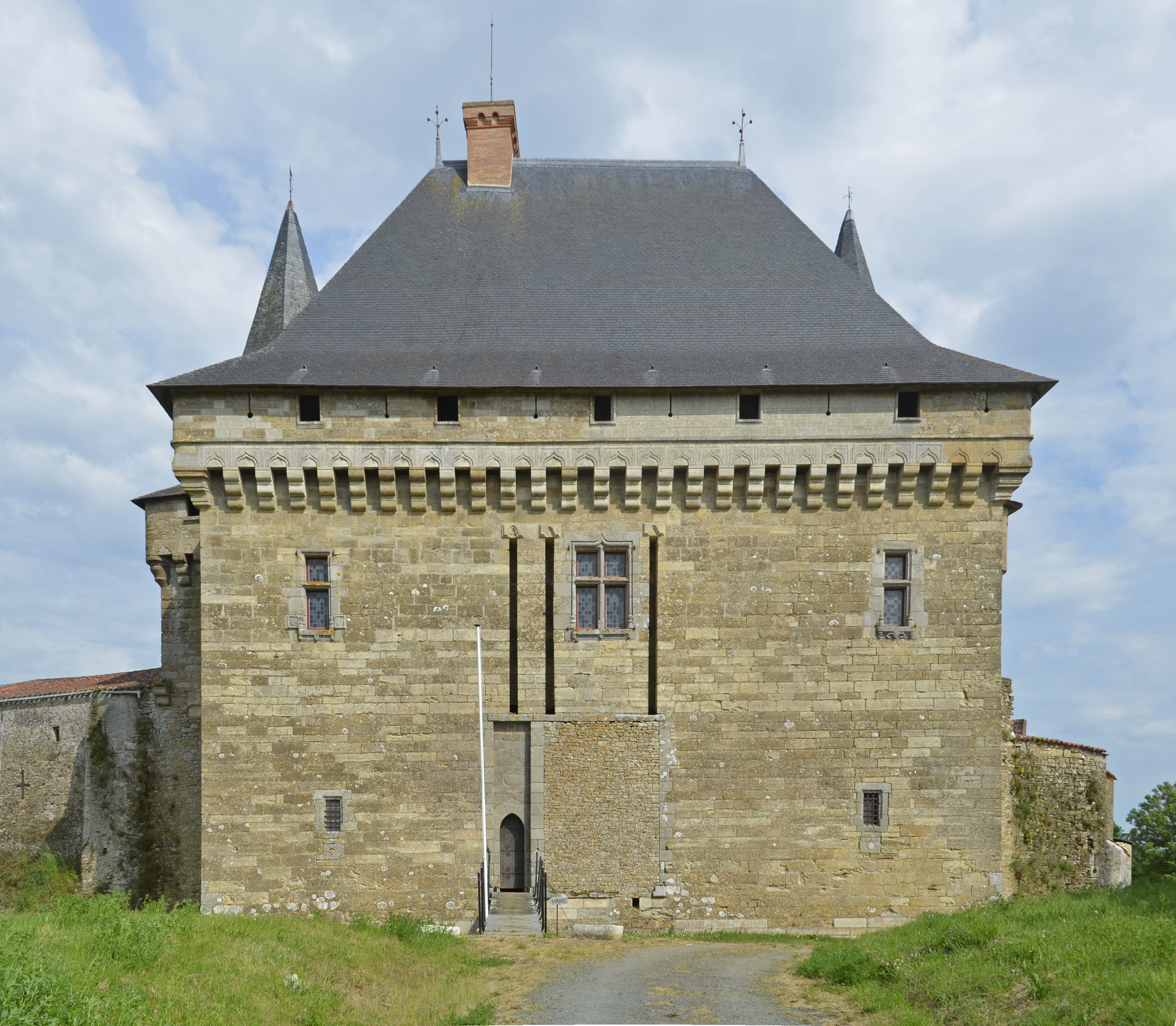 Sigournais' Castle - Vendée, France